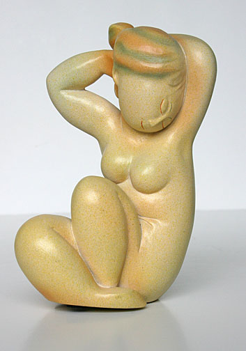 Kariatide Sculpture